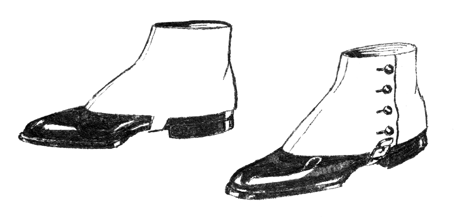 Line art drawing of a pair of gaiters.